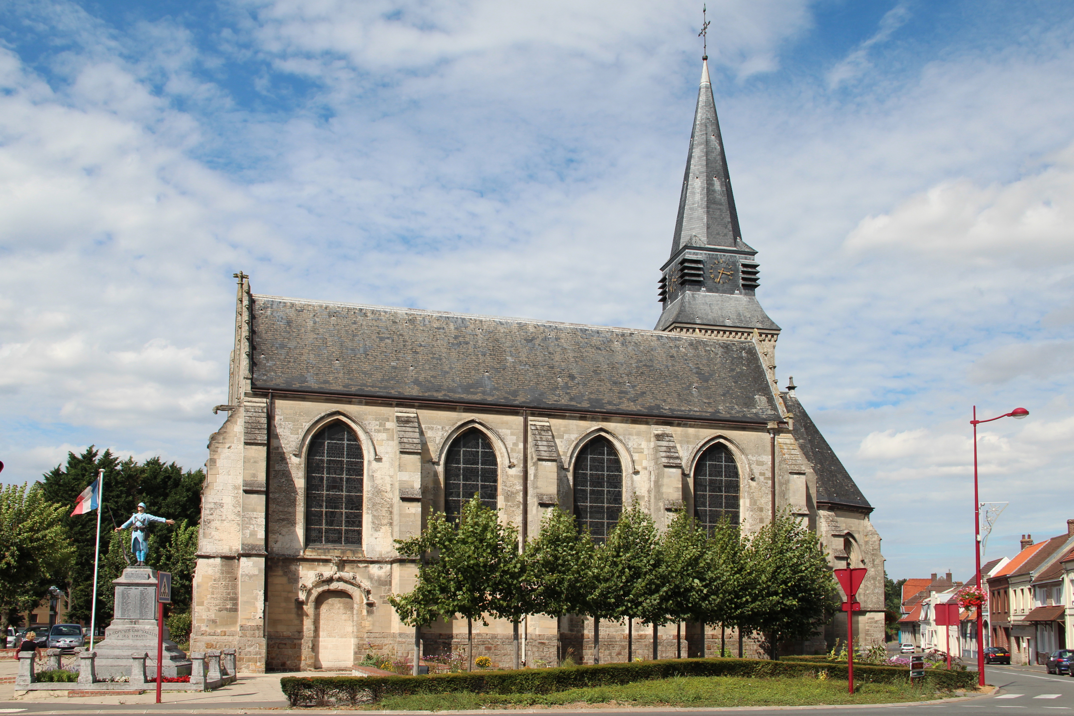 Aix-Noulette (Pas-de-Calais, France), Place Saint Germain, the church (1531) and the memorial of the 1914-1918 war.